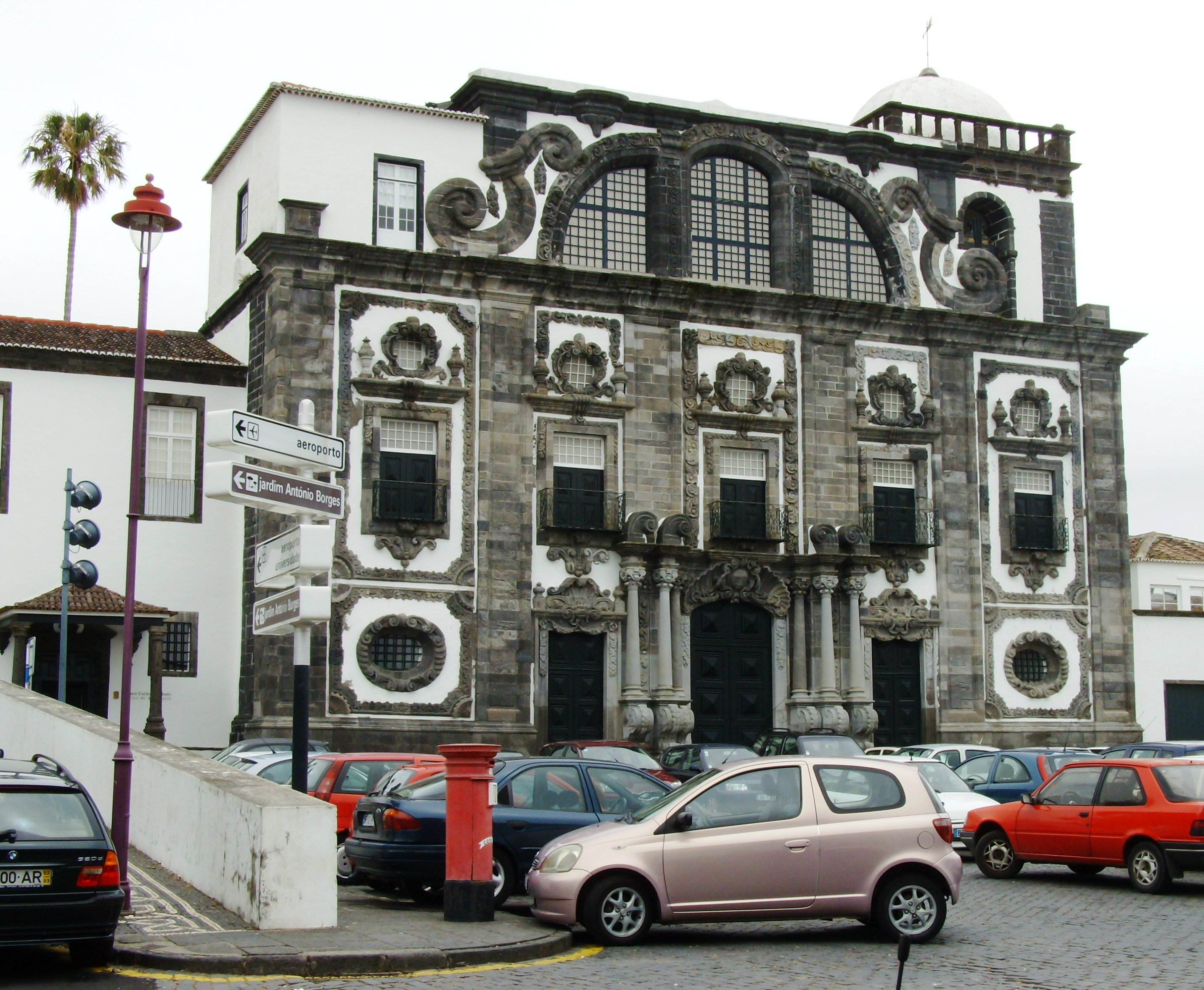 The Church of the Colégio dos Jesuítas, São Sebastião, Ponta Delgada, São Miguel island, Azores.